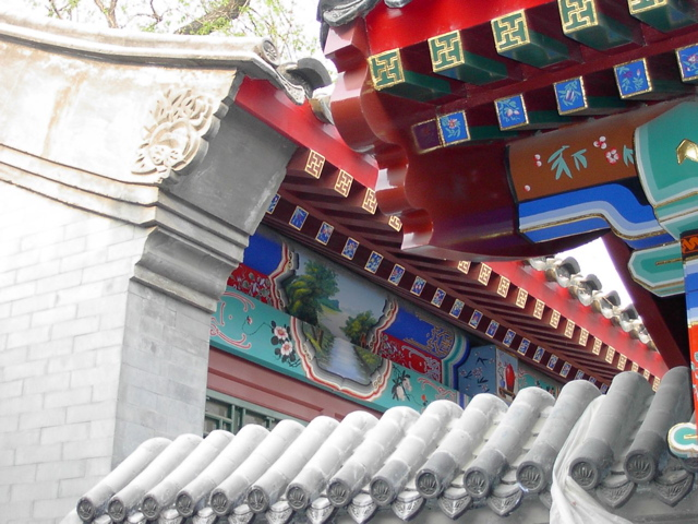 Details of traditional architecture of Beijing